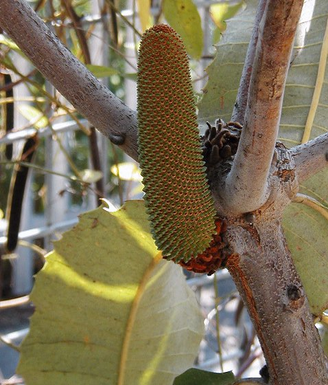 Banksia robur - new bud. photo - Cas Liber